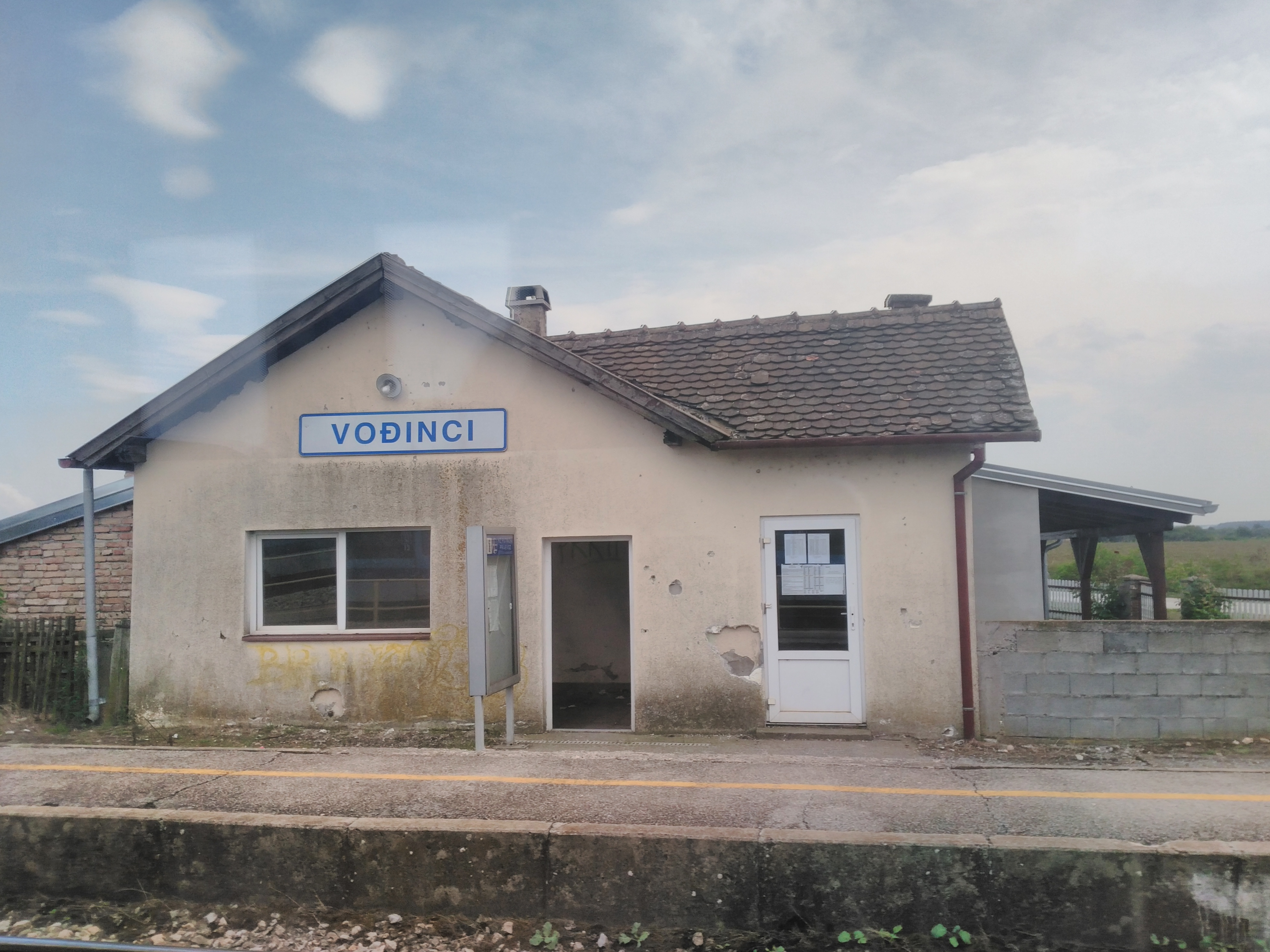 Train Station in Vođinci, Croatia.